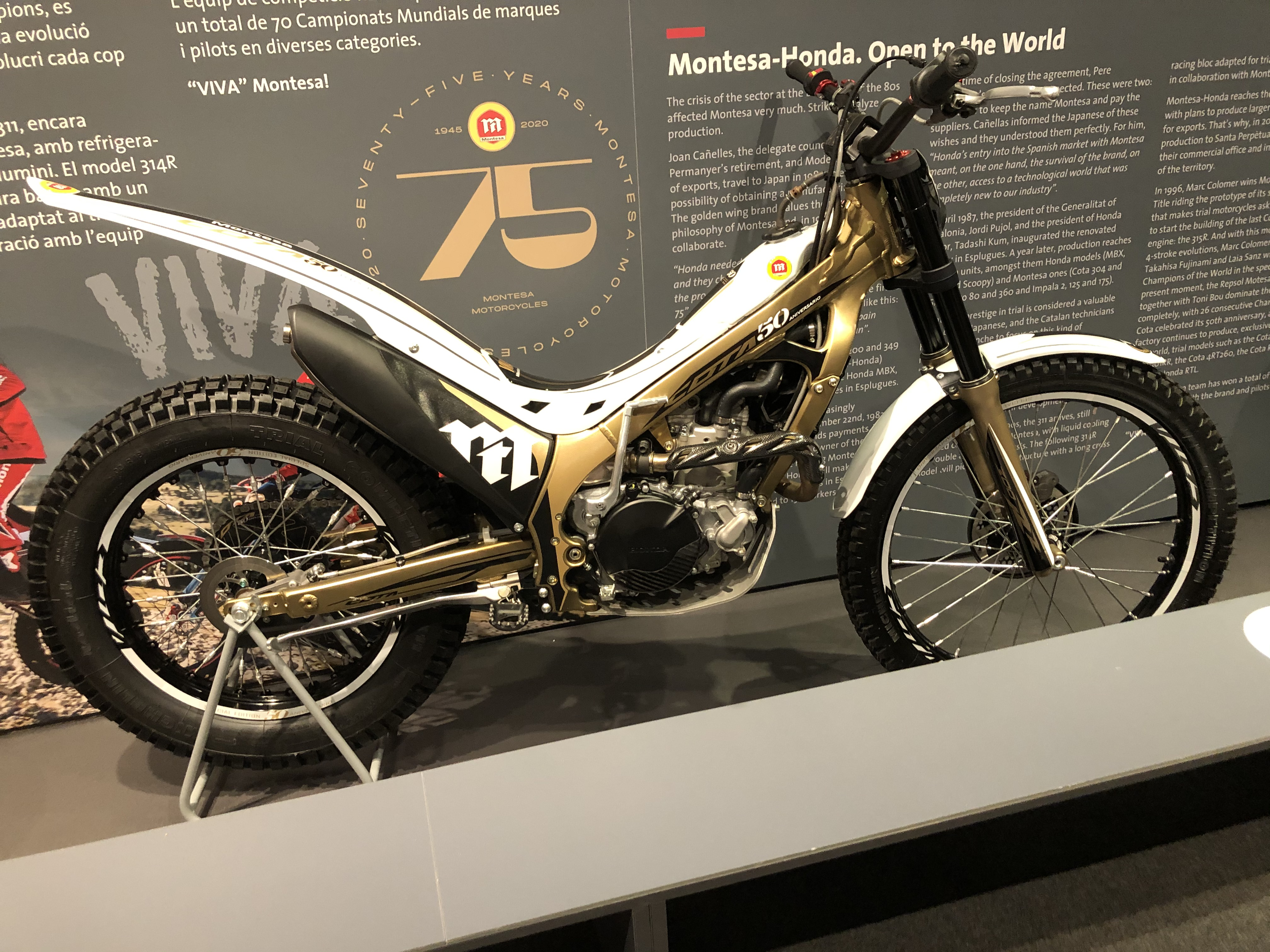 Montesa Cota 4RT 2019 50 Aniversari 283cc